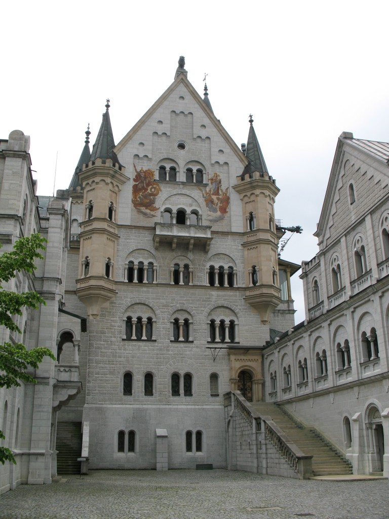 The upper courtyard of Schloss Neuschwanstein